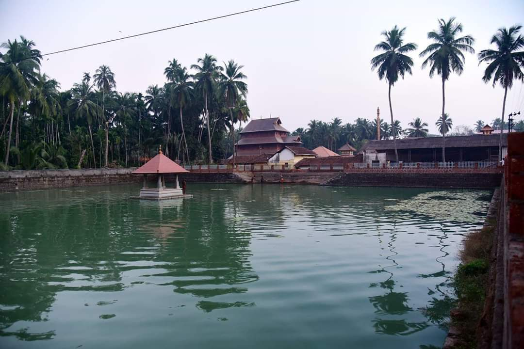 ಪುಷ್ಕರಣಿ